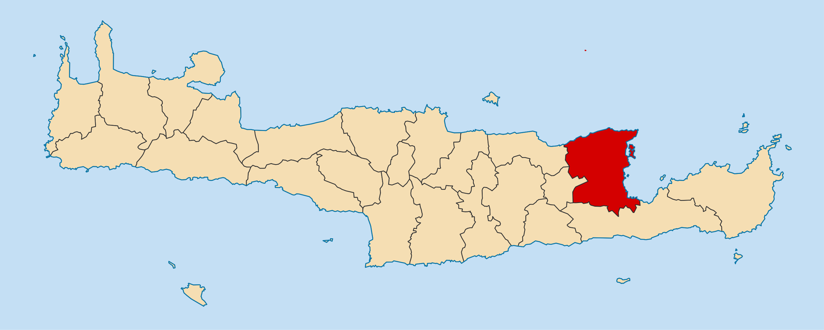 Locator map for Agios Nikolaos (first called: Mirabelo) municipality in Greek region Crete (2011)